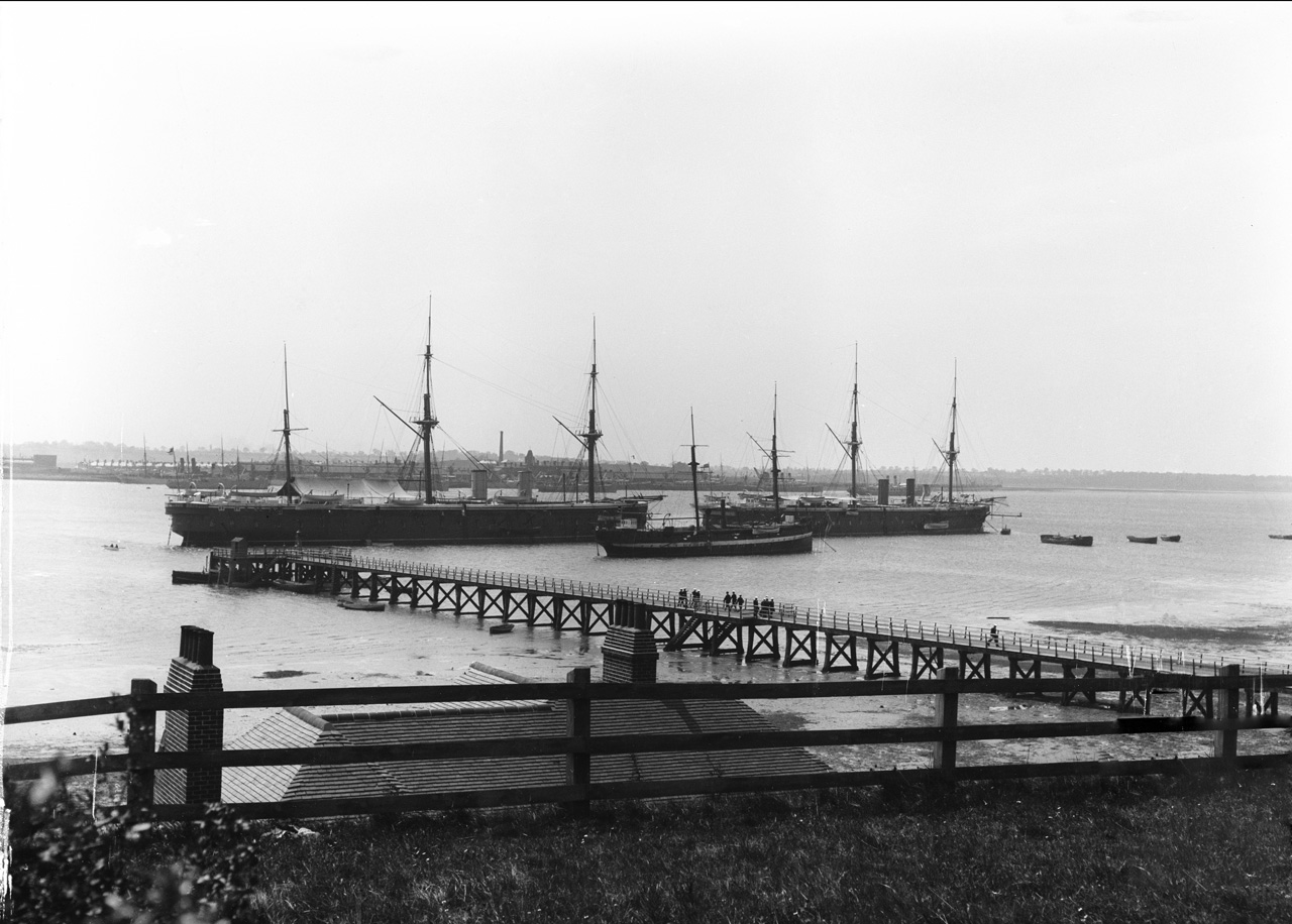 Photograph showing the view from Shotley across the River Stour to Harwich with Shotley Pier and the training ships of "HMS Ganges". Left : HMS Minotaur (1863); centre foreground : HMS Caroline; right : HMS Agincourt (1865)